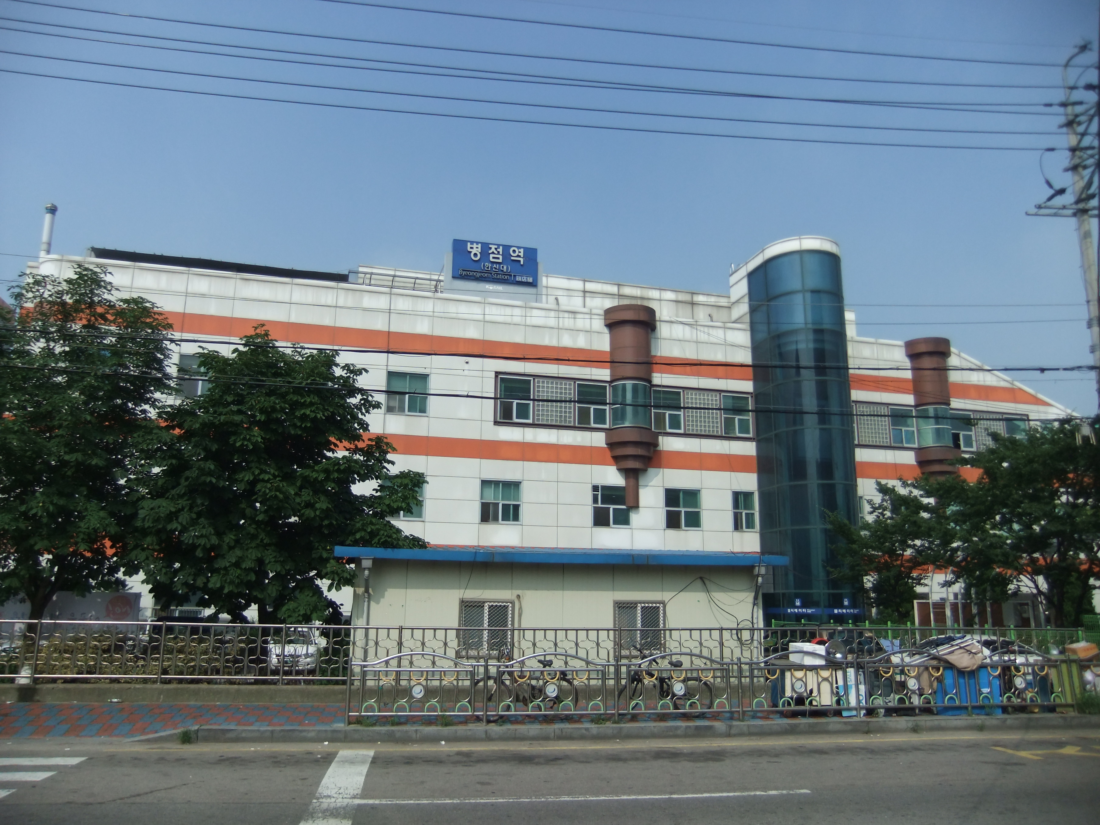 byeongjeom station at gyeongbu line in korea